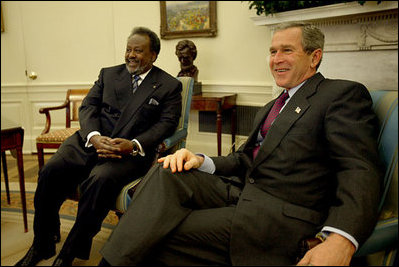 President George W. Bush and President Ismail Omar Guelleh of Djibouti greet the press during a meeting in the Oval Office Jan. 21, 2003.